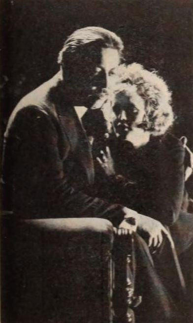 Still from the third episode of the American film serial The Phantom Foe (1920) with Warner Oland and Juanita Hansen, on page 89 of the October 23, 1920 Exhibitors Herald.